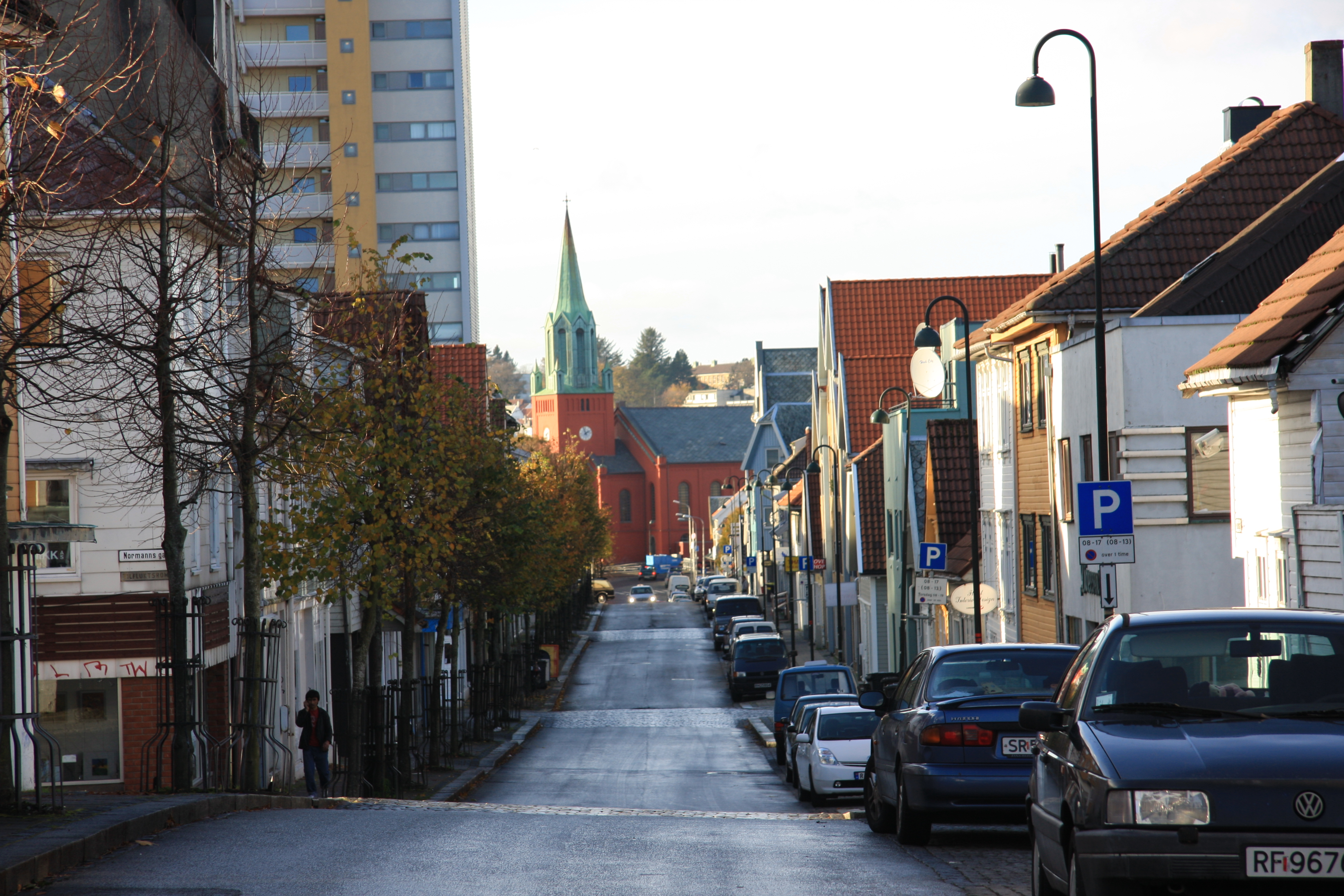 The "infamous" Pedersgata-street in Stavanger